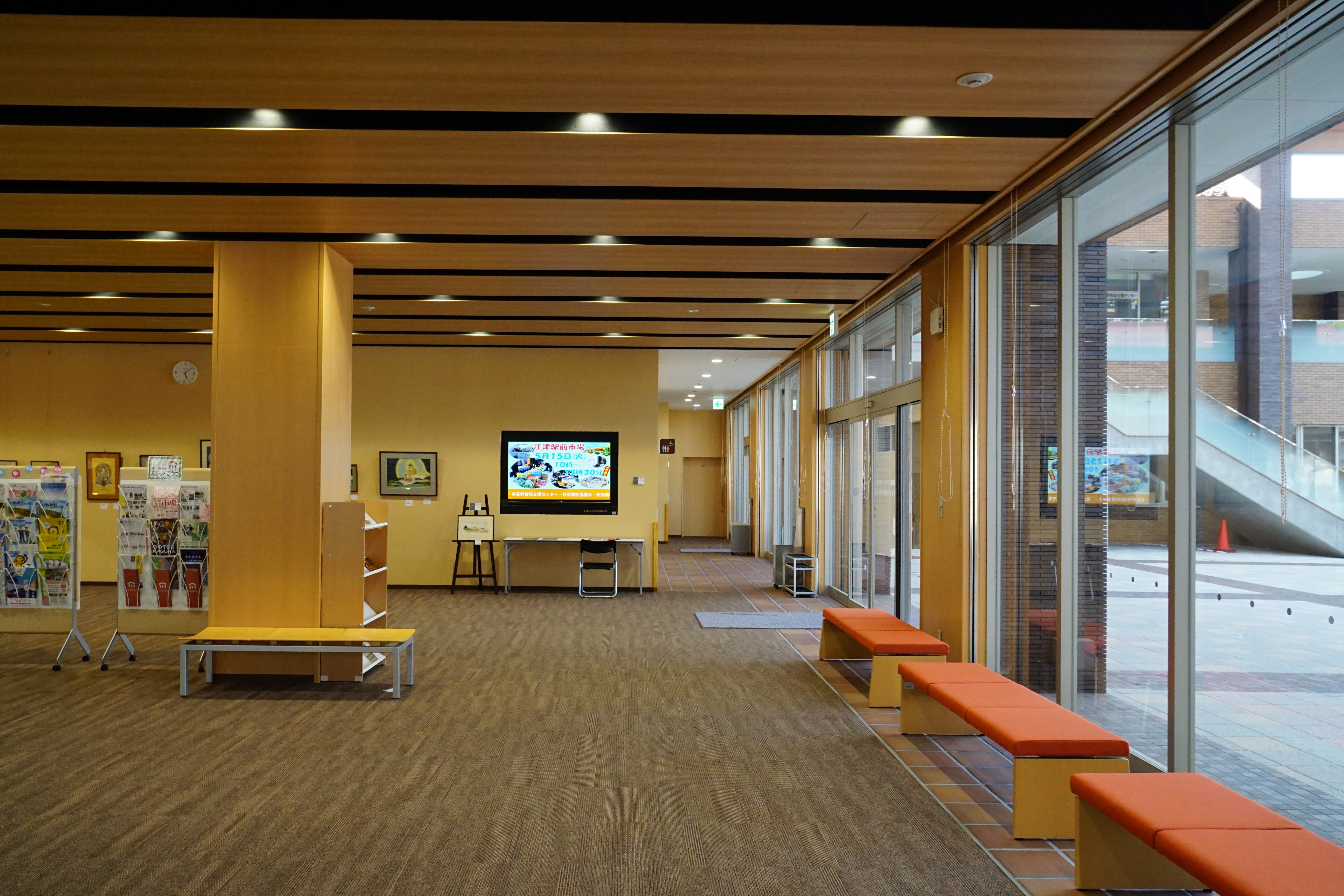 Pallet_Gotsu, Gotsu, Shimane prefecture, Japan